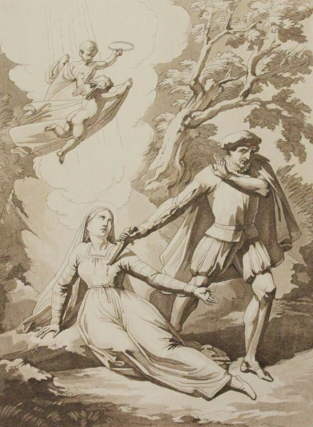 Camilla Gentili, by Wenzel Giovanni